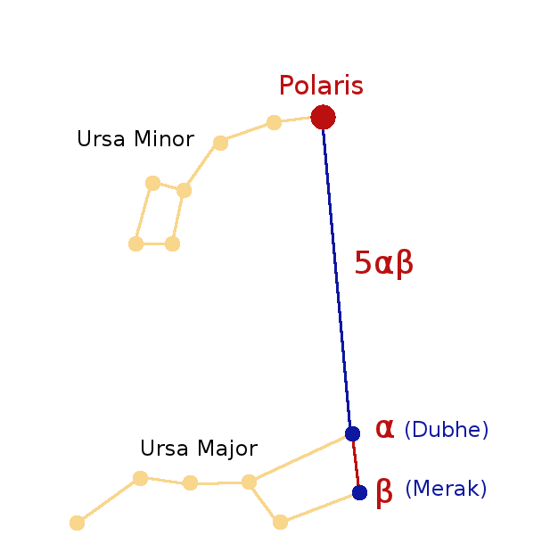 Finding Polaris in the sky.